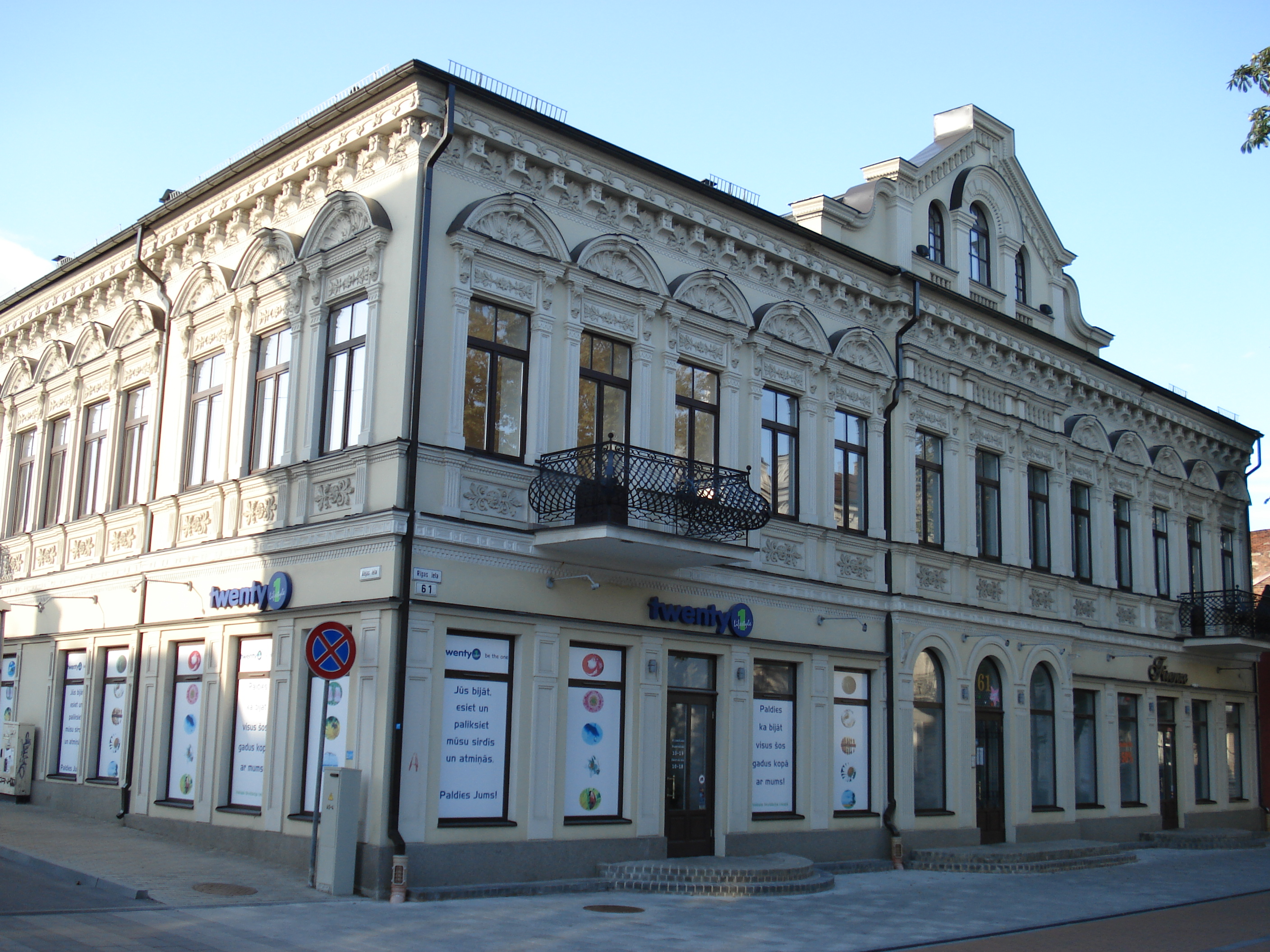 Rīgas iela 61 in Daugavpils